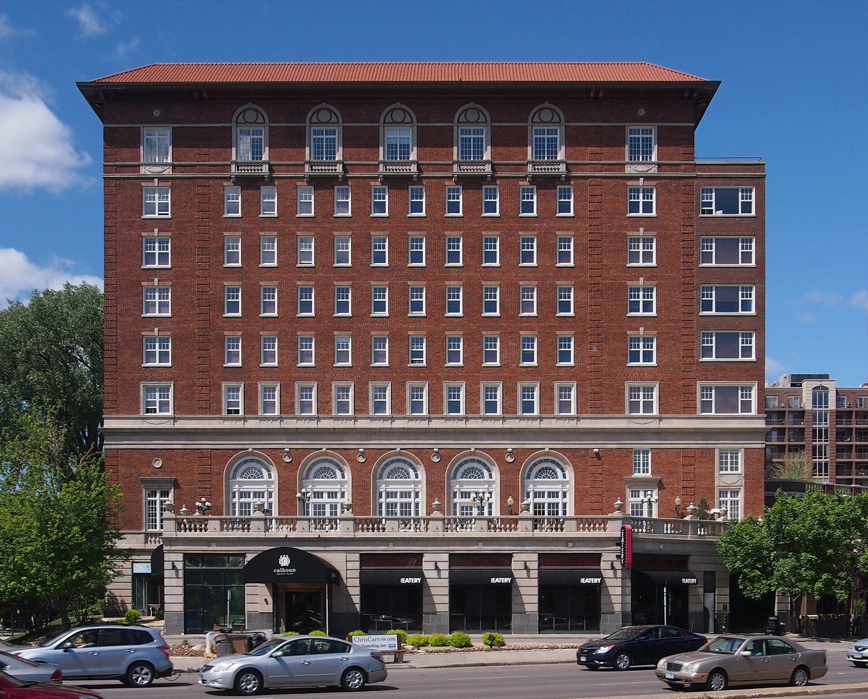 Calhoun Beach Club, 2730 W Lake St, Minneapolis, Minnesota, USA. Viewed from the south.